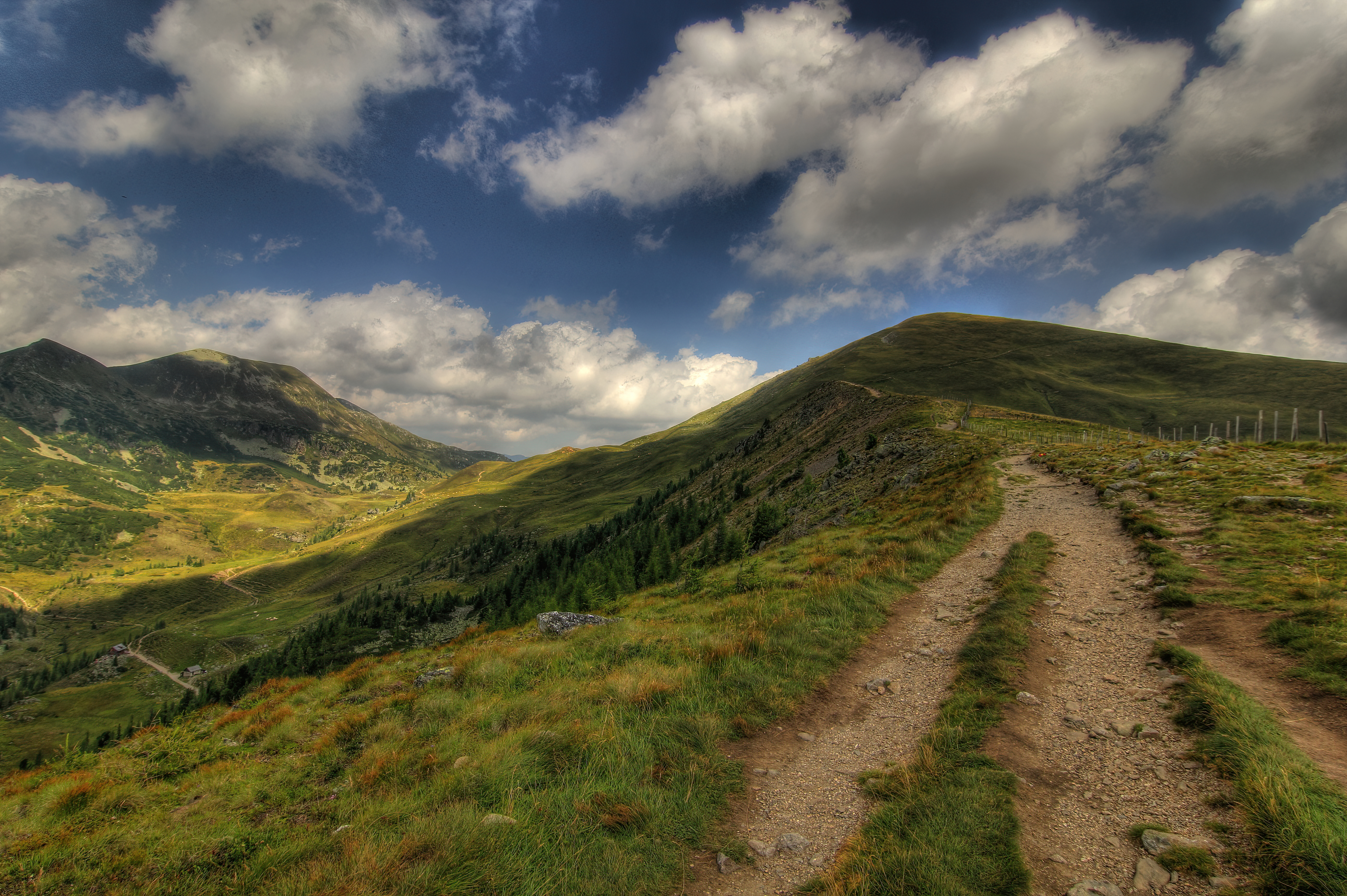 Malnock, Nockberge near Bad Kleinkirchheim, district Spittal an der Drau in Carinthia / Austria / EU.